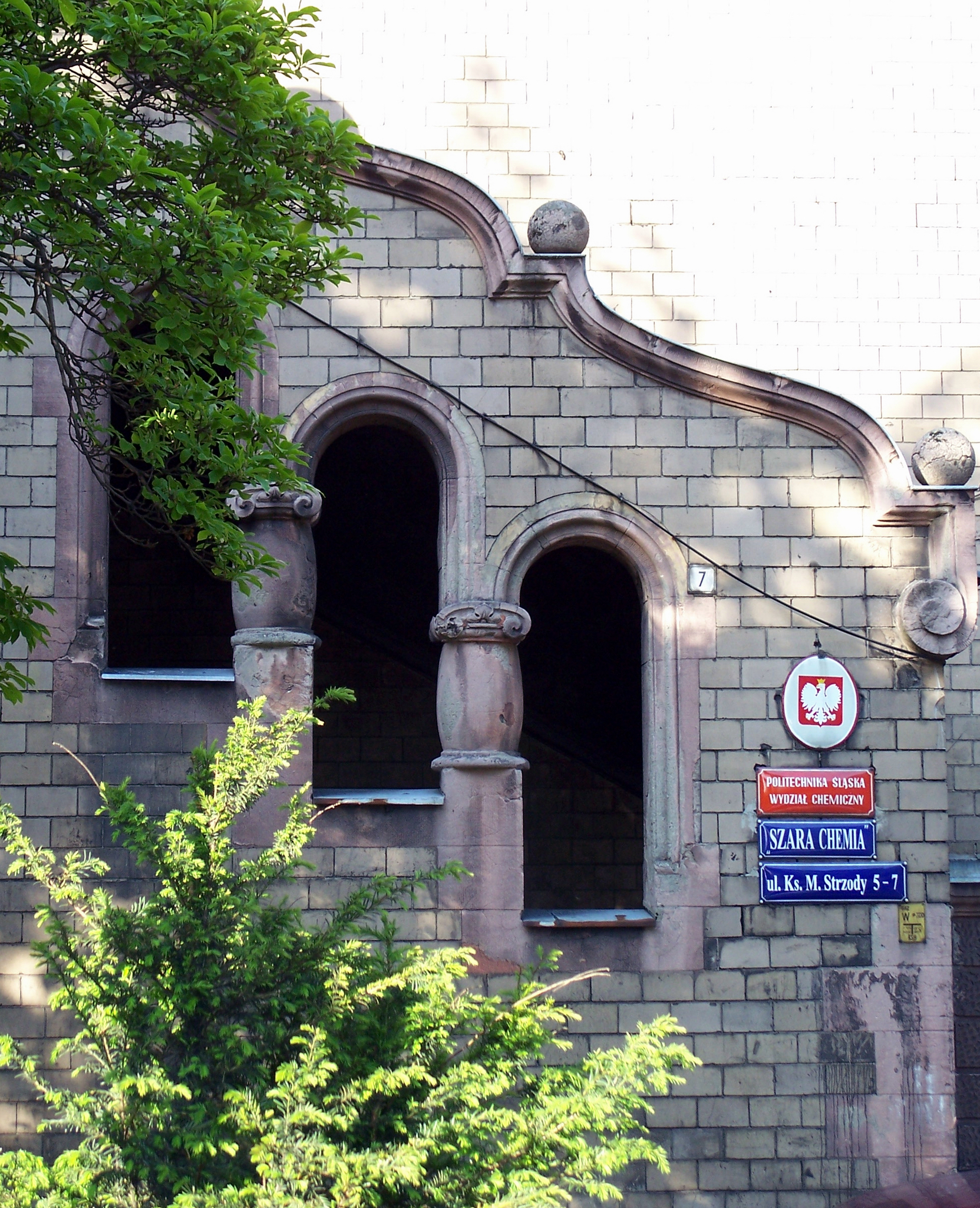 Gliwice, Stredonius Street